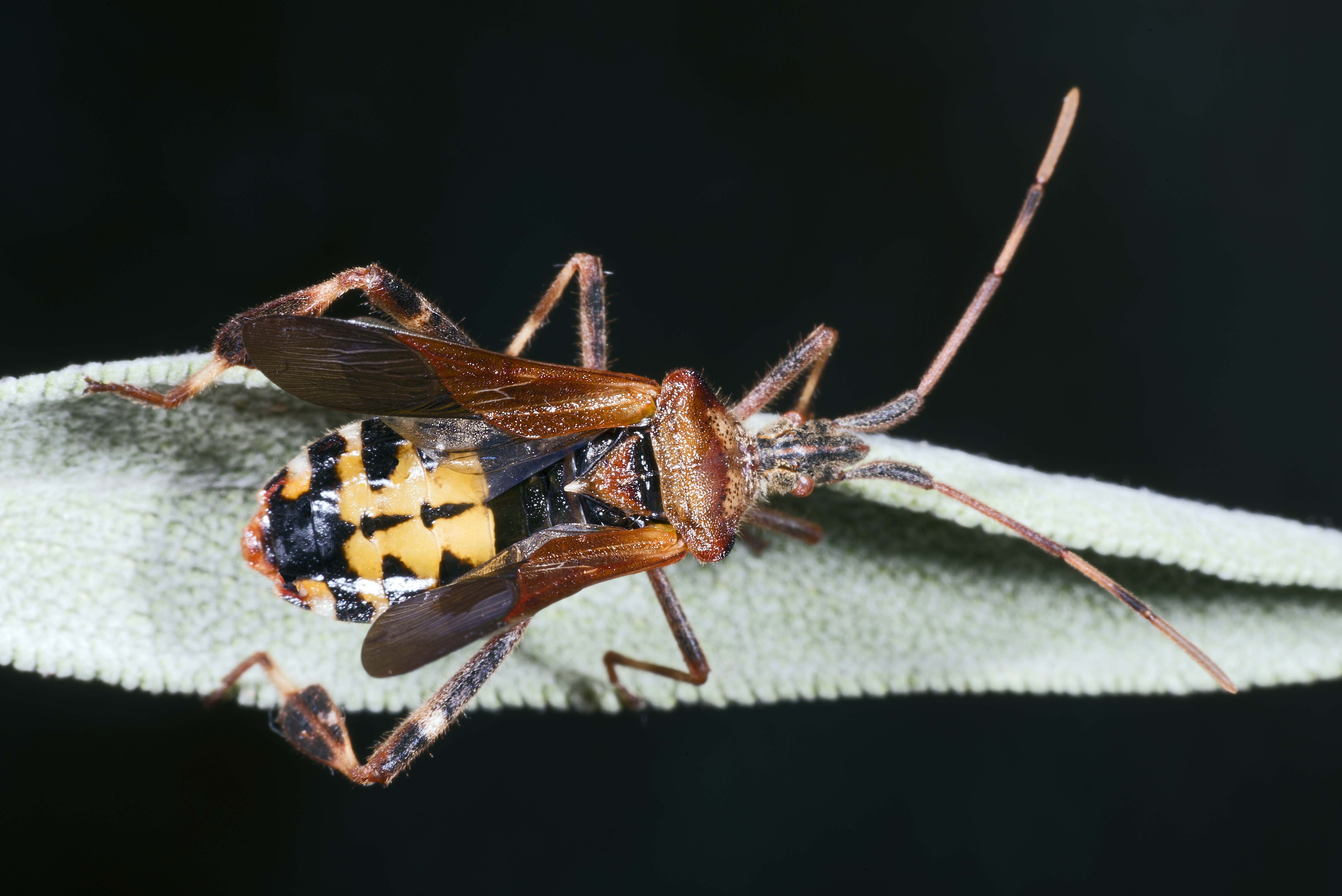 Western conifer seed bug - Abdomen